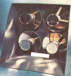 Pioneer 10 - Asteroid/Meteoroid Astronomy